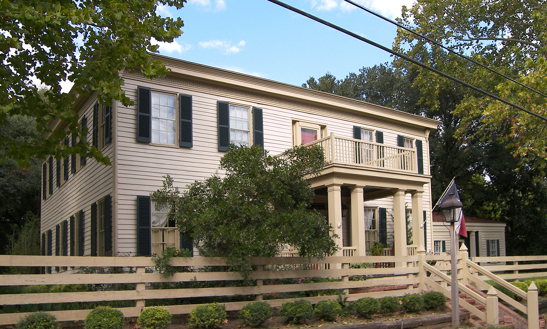 The Stage Coach Inn located in Chappell Hill, Texas, United States. The house was listed on the National Register of Historic Places on December 12, 1976.